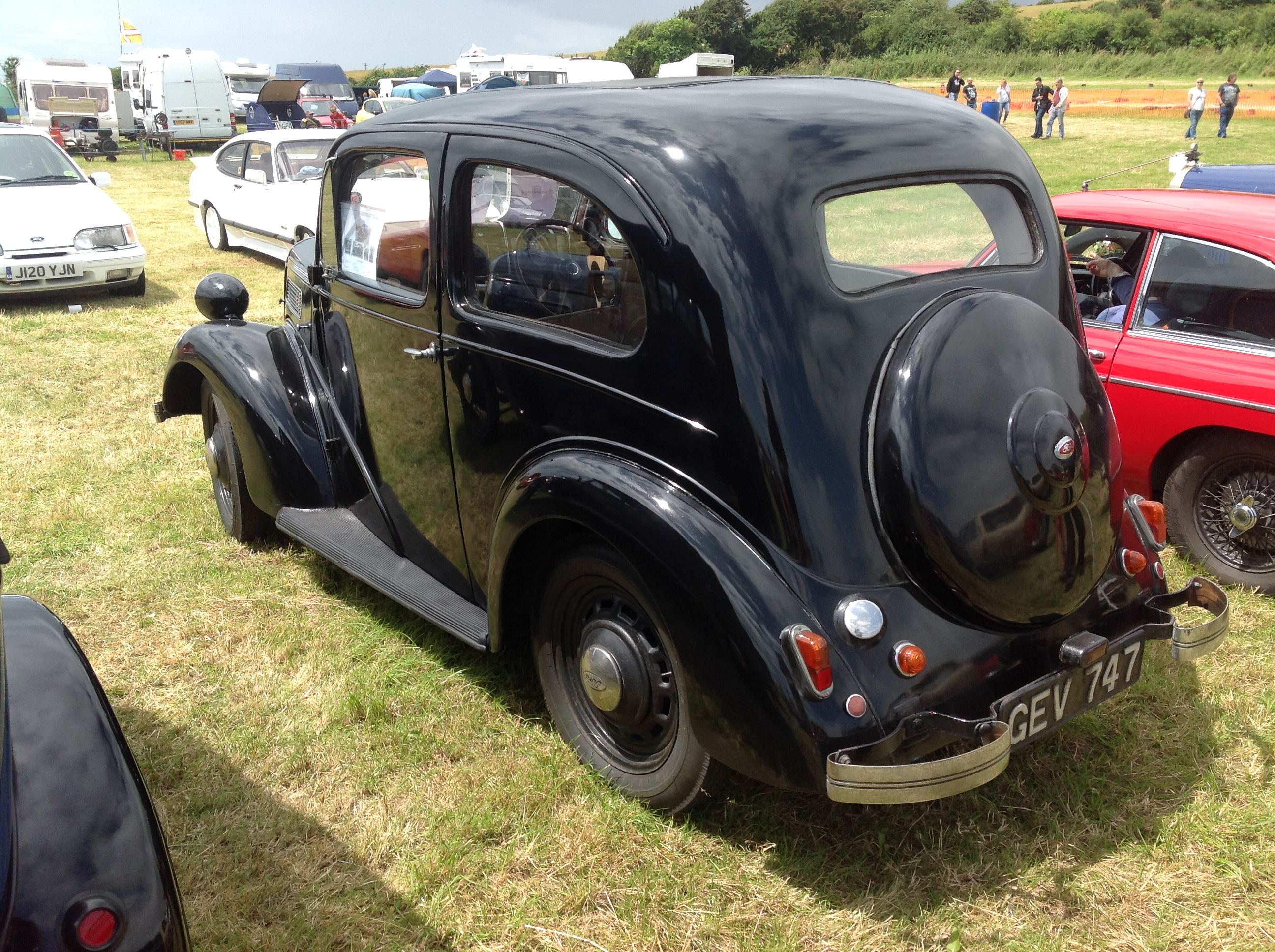 1938 Ford 8hpChickerell Steam and Vintage Rally, Weymouth, Dorset